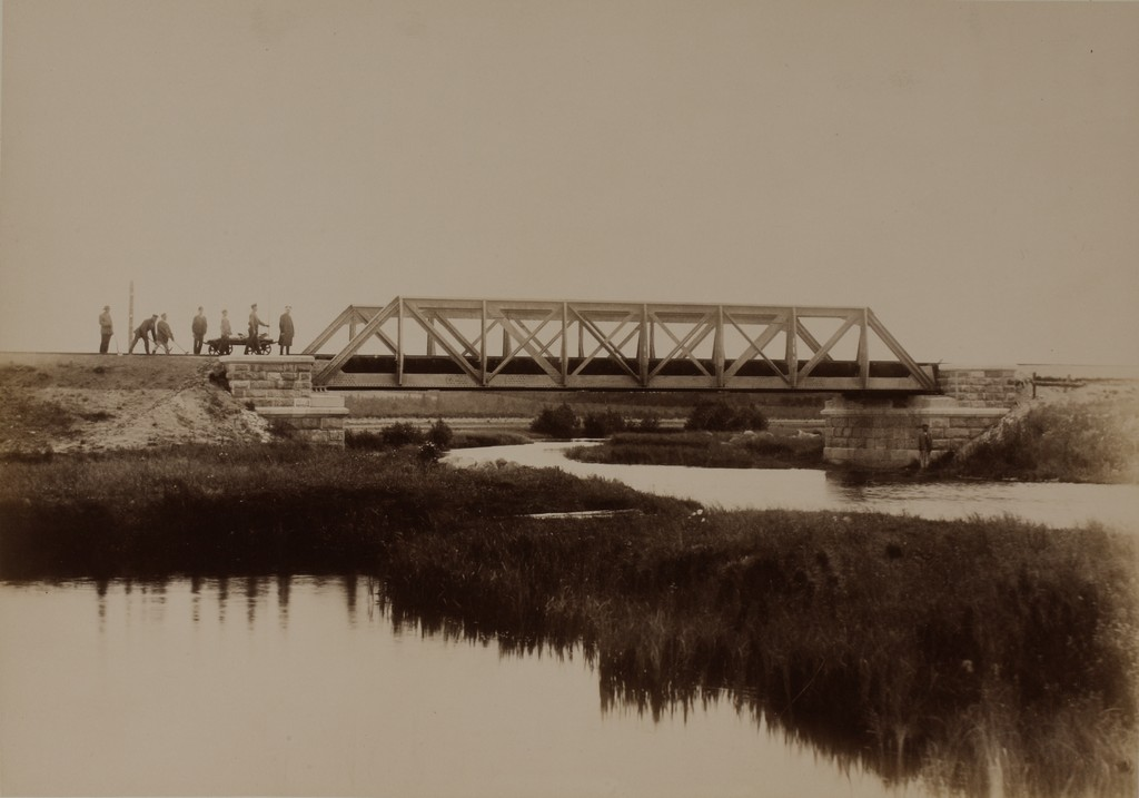 Railway bridge over the Elva River